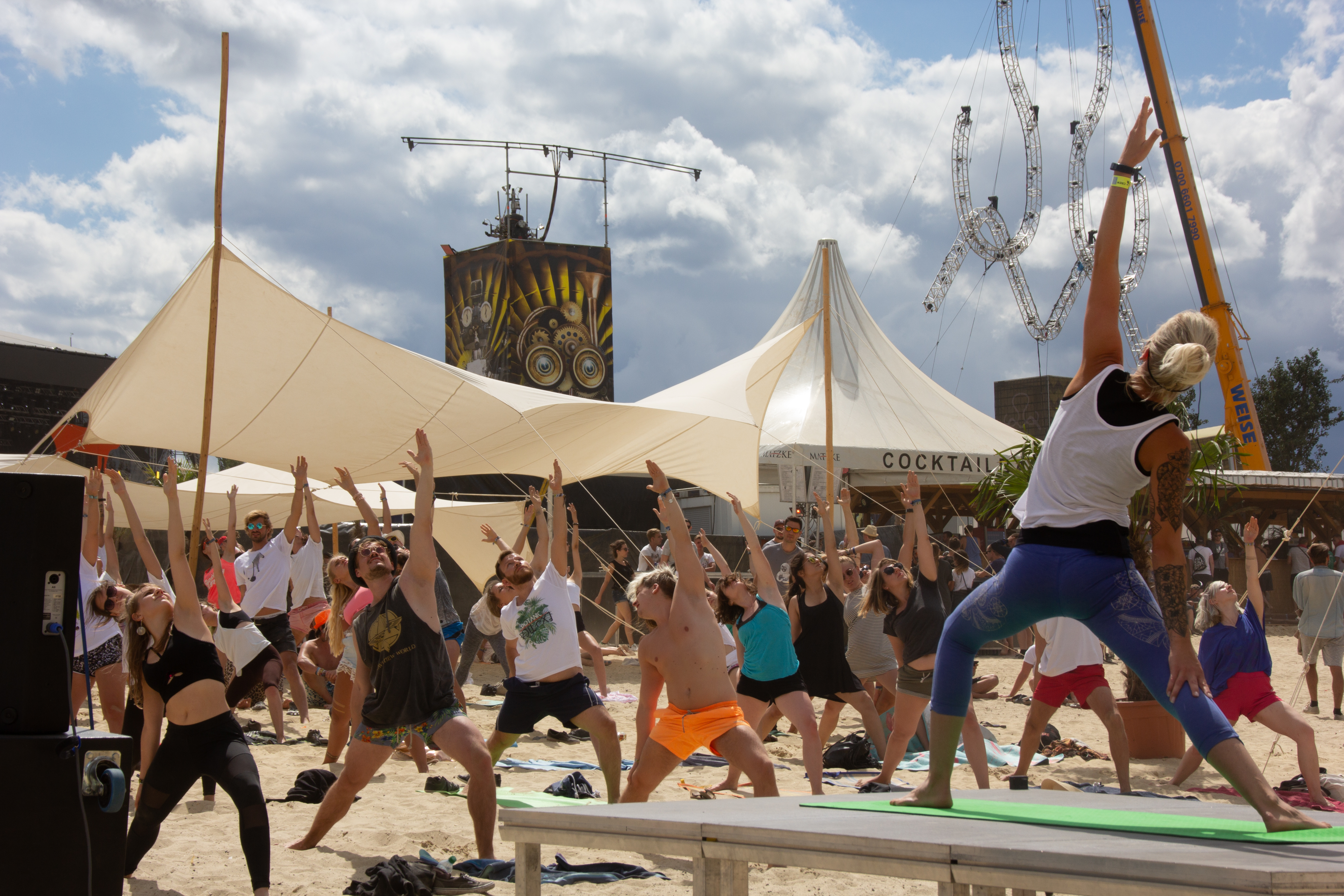 Yoga at the beach of SMS 2018